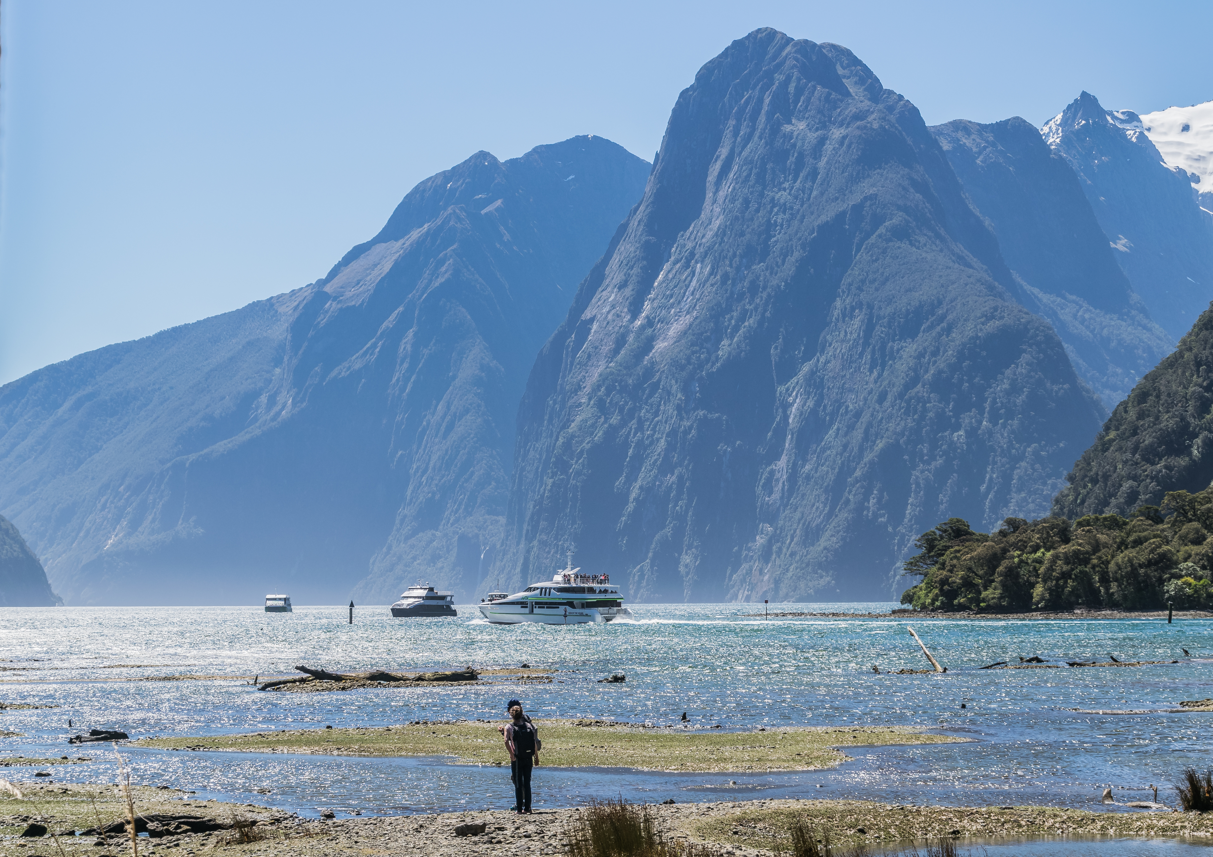 Milford Sound in Fiordland National Park, South Island of New Zealand